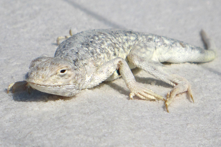 Bleached earless lizard, White Sands National Park, New Mexico, United States